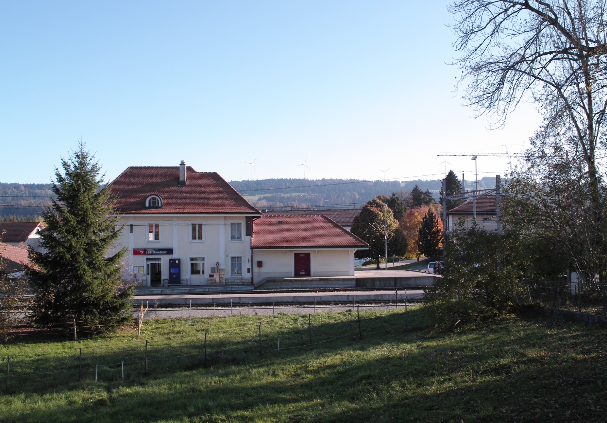 Railway station of Les Breuleux, canton of Jura, Switzerland.